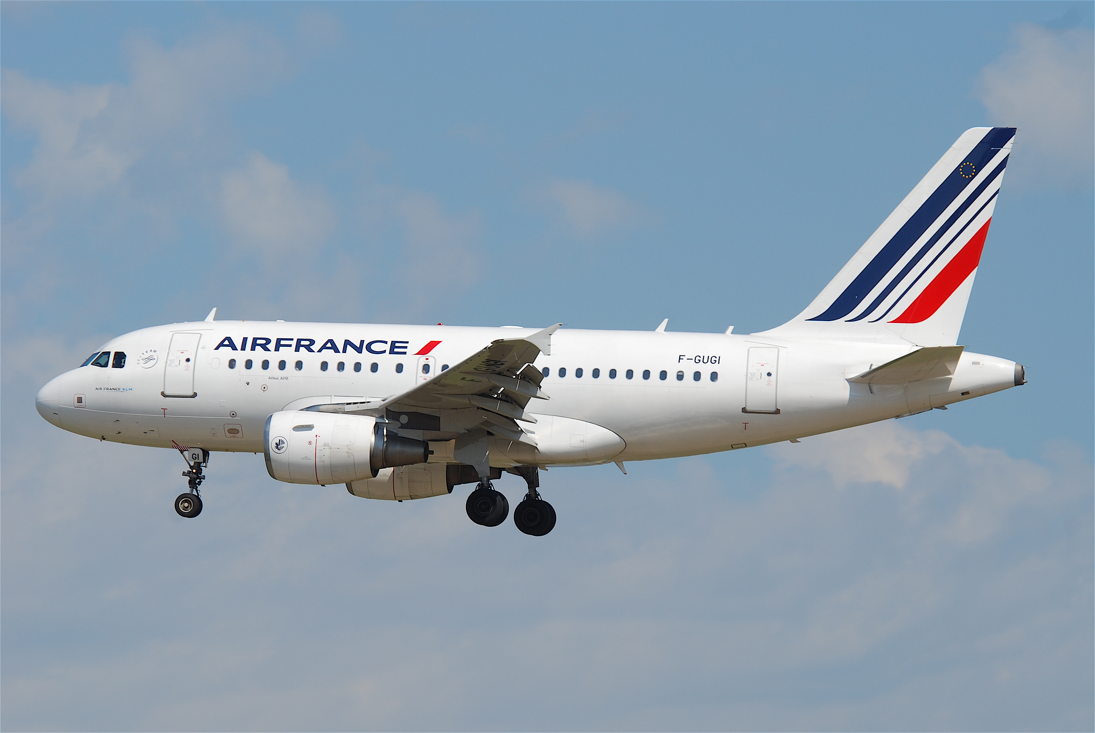 Air France Airbus A318-111; F-GUGI@FRA;06.07.2011/603gt